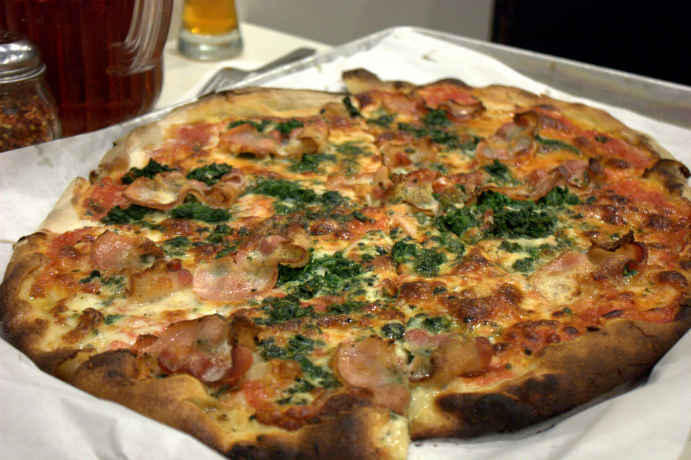 Red bacon spinach pie (pizza) at Frank Pepe Pizzeria Napoletana in New Haven, Connecticut